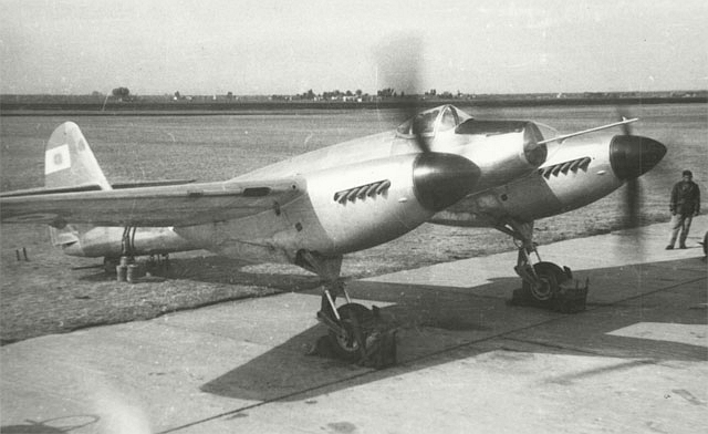 The lone prototype I.Ae. 30 Ñancú performing an engine run-up. (c. 1950s)